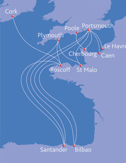 Brittany Ferries routes map